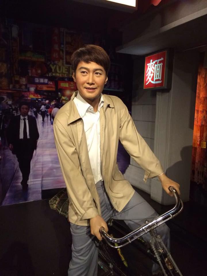 Leon Lai in Madame Tussauds Hong Kong 2019